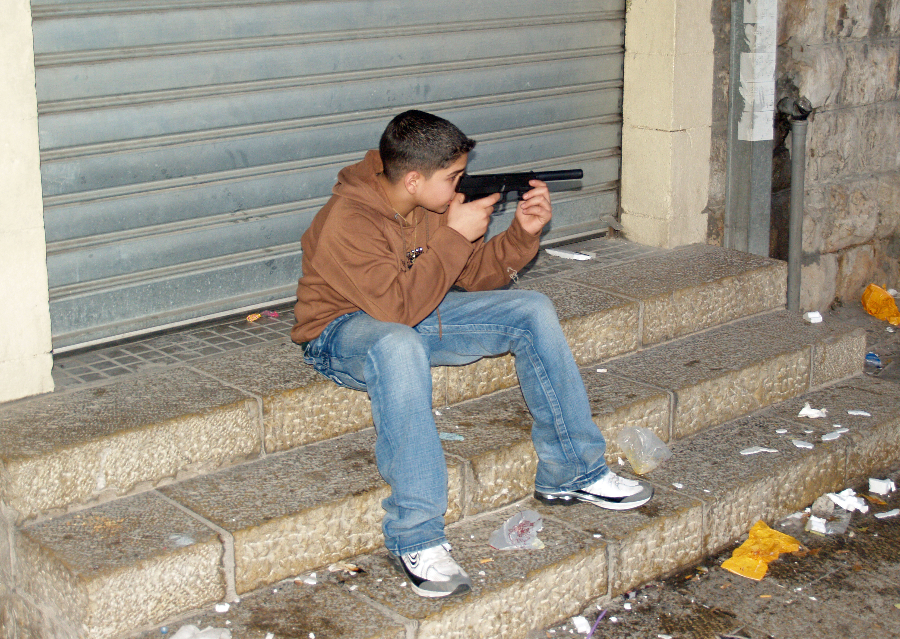 Palestinian boy with toy gun in Nazareth by David Shankbone. This file is used in articles Toy weapon and Knallpulverpistol (the Swedish language version of Cap gun).